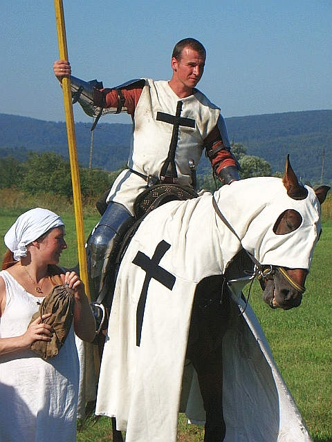 Mrzygłód